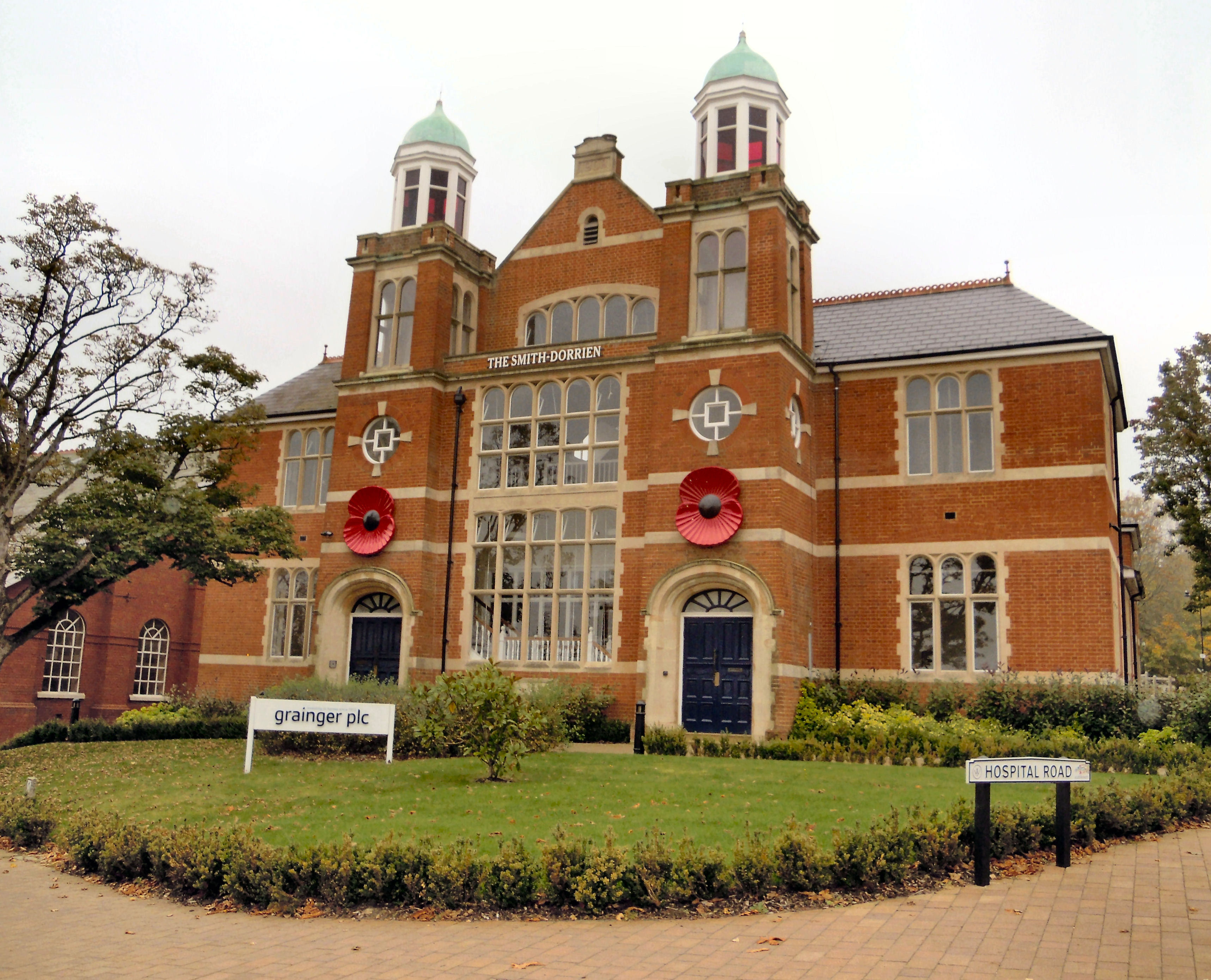 Smith-Dorrien House in Aldershot in Hampshire is named in honour of Horace Smith-Dorrien